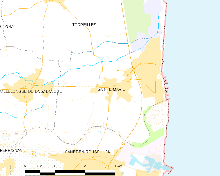 Map of French municipality